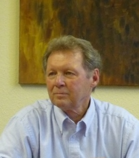 Roy Bourgeois, 2013 in Münster, Germany